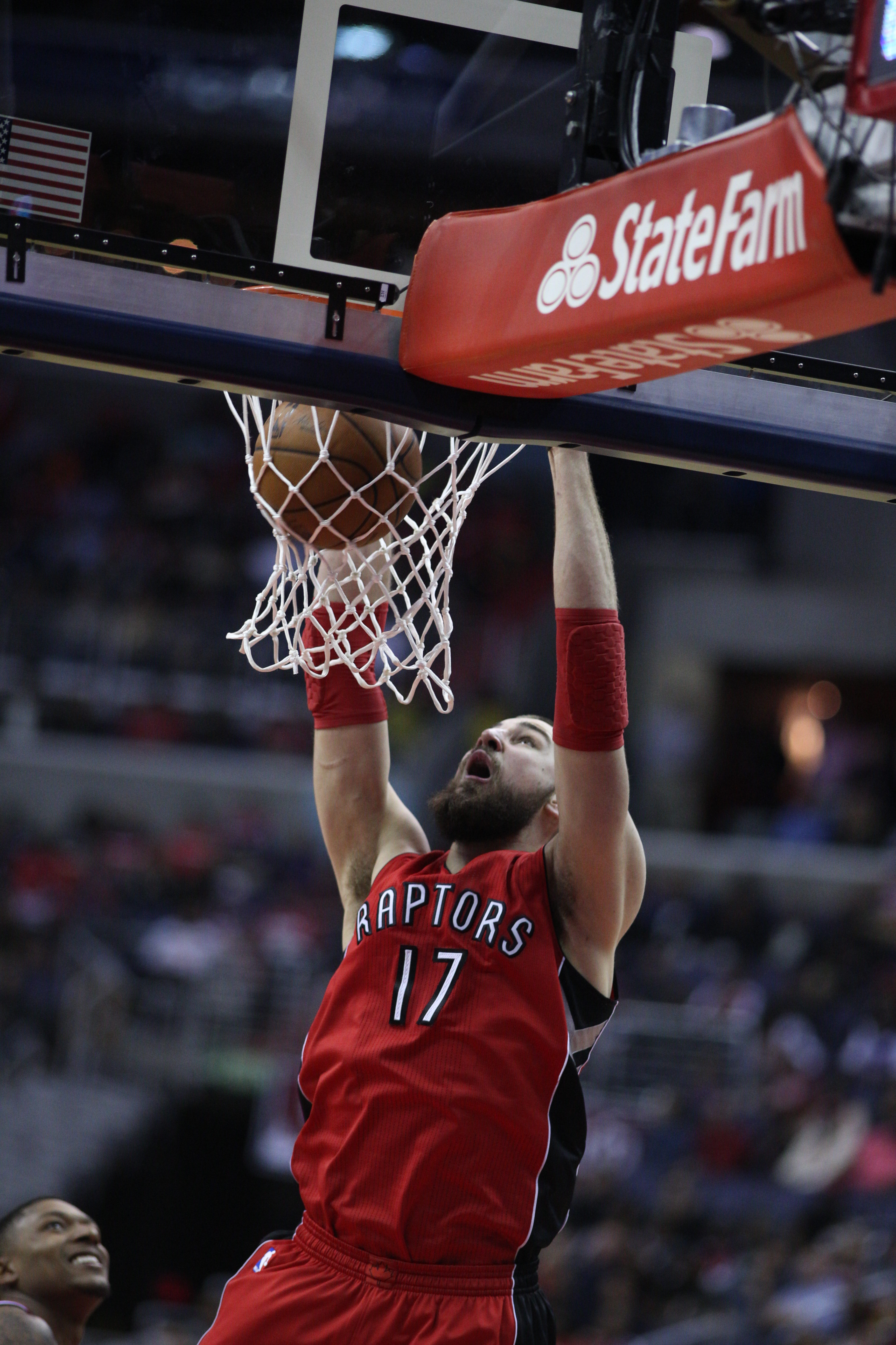 Jonas Valančiūnas going for a dunk versus the Washington Wizards at Verizon Center.